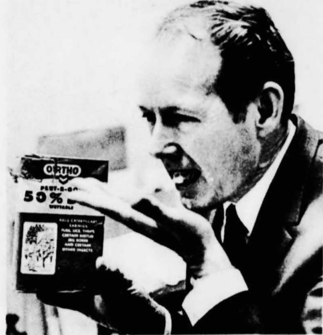 Hoping to destroy what he believes are myths about DDT, J. Gordon Edwards calmly eats a bug killer containing the pesticide.